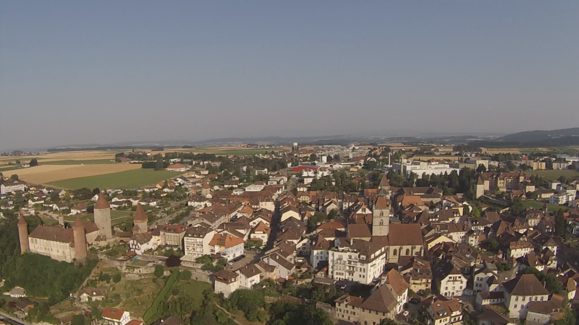 Aerial view of Esta, still image from a gopro video.